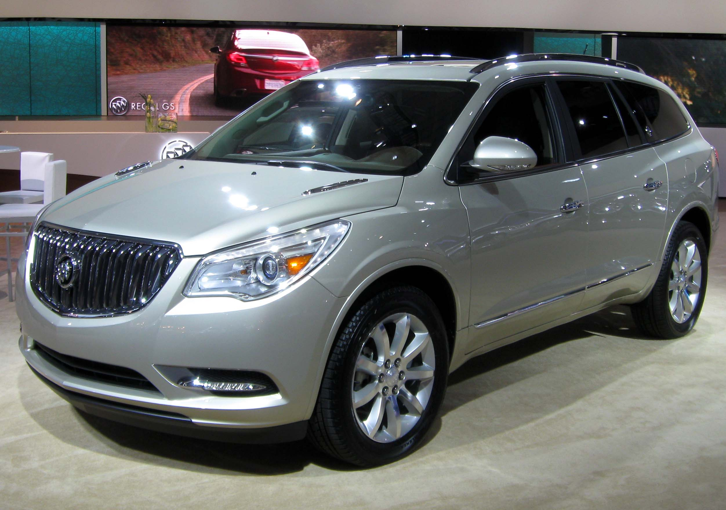 2013 Buick Enclave photographed at the 2012 New York International Auto Show.